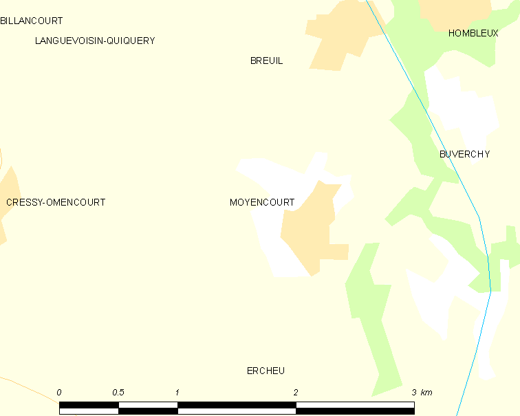 Map of French municipality Moyencourt